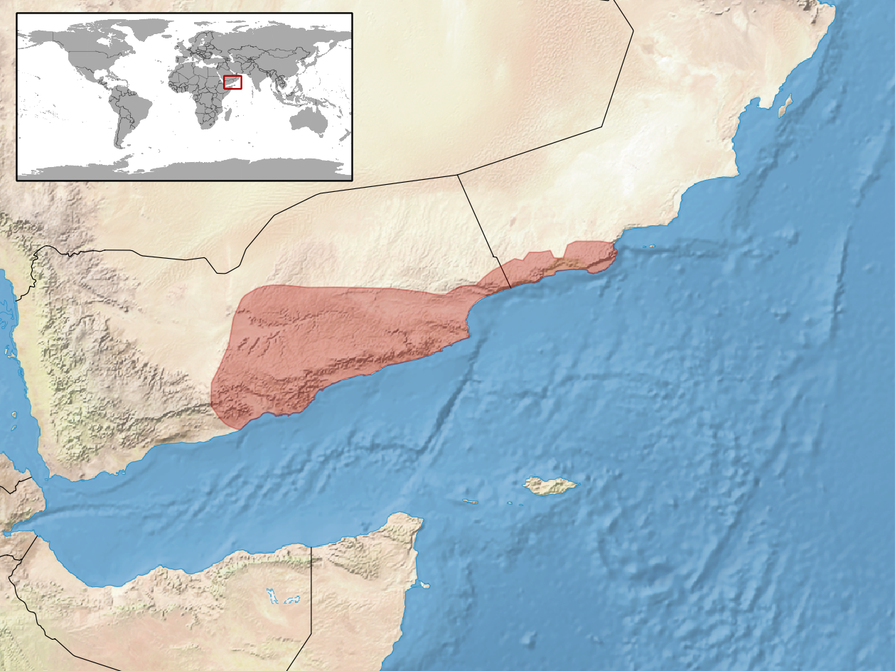 geographic distribution of Uromastyx benti (Native: Oman; Yemen)